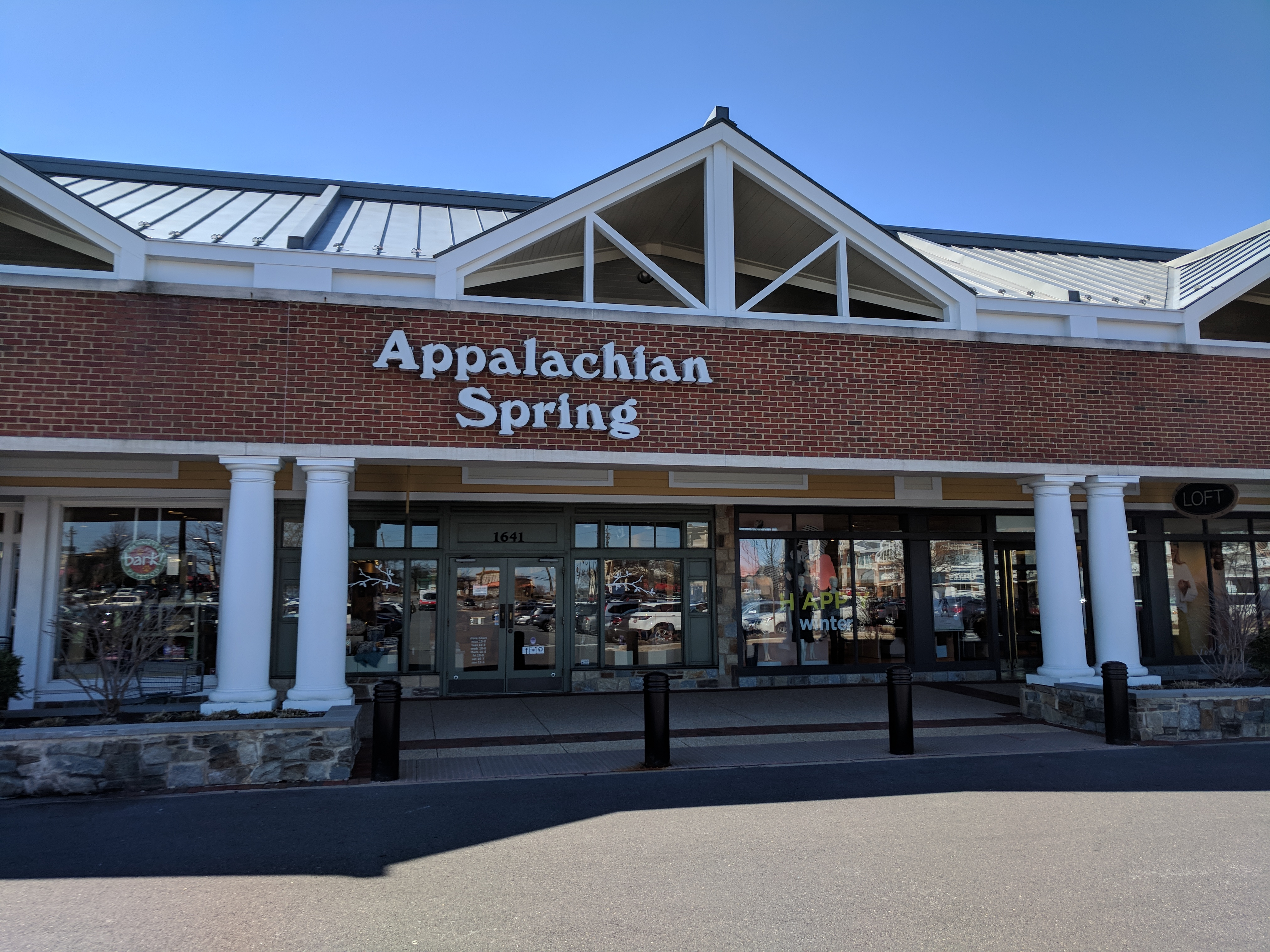 Appalachian Spring, an Appalachian-style retail store in Rockville, Montgomery County, Maryland.